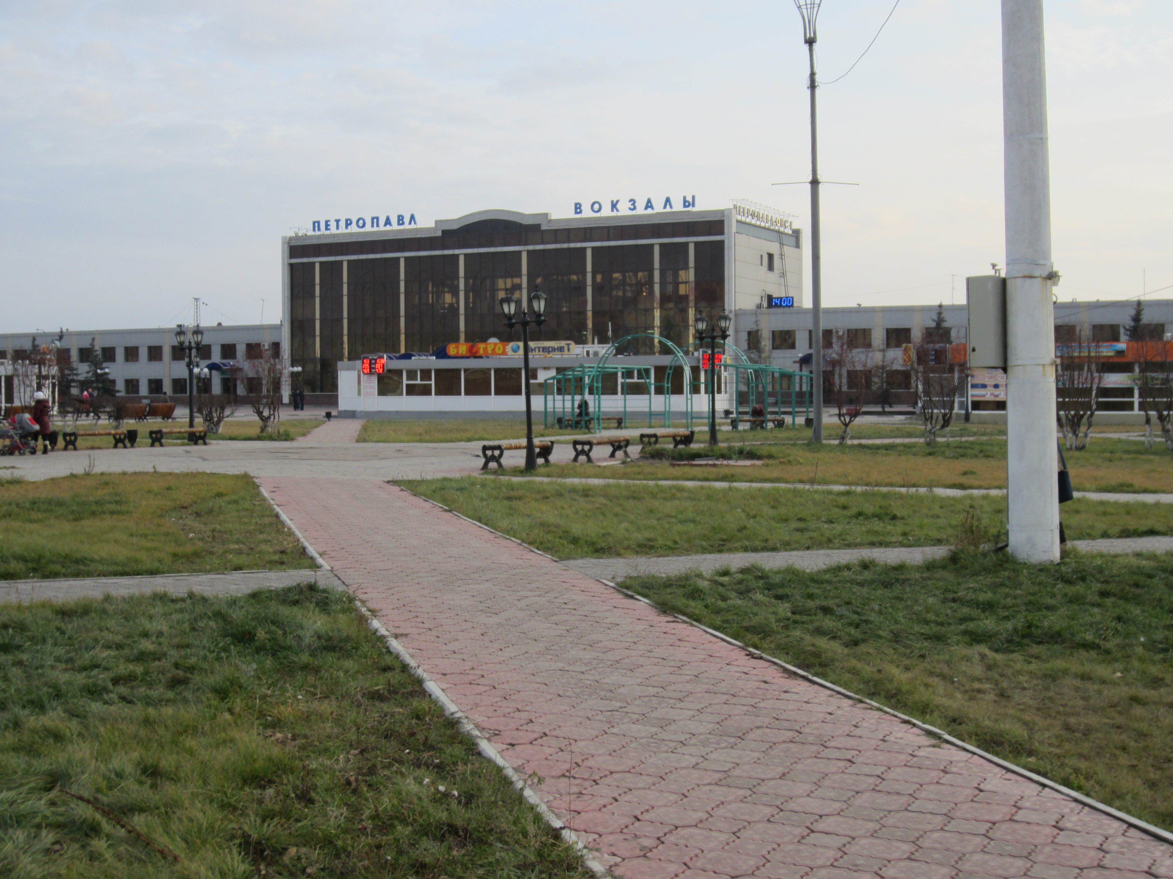 The train station in Petropavl, Kazakhstan.